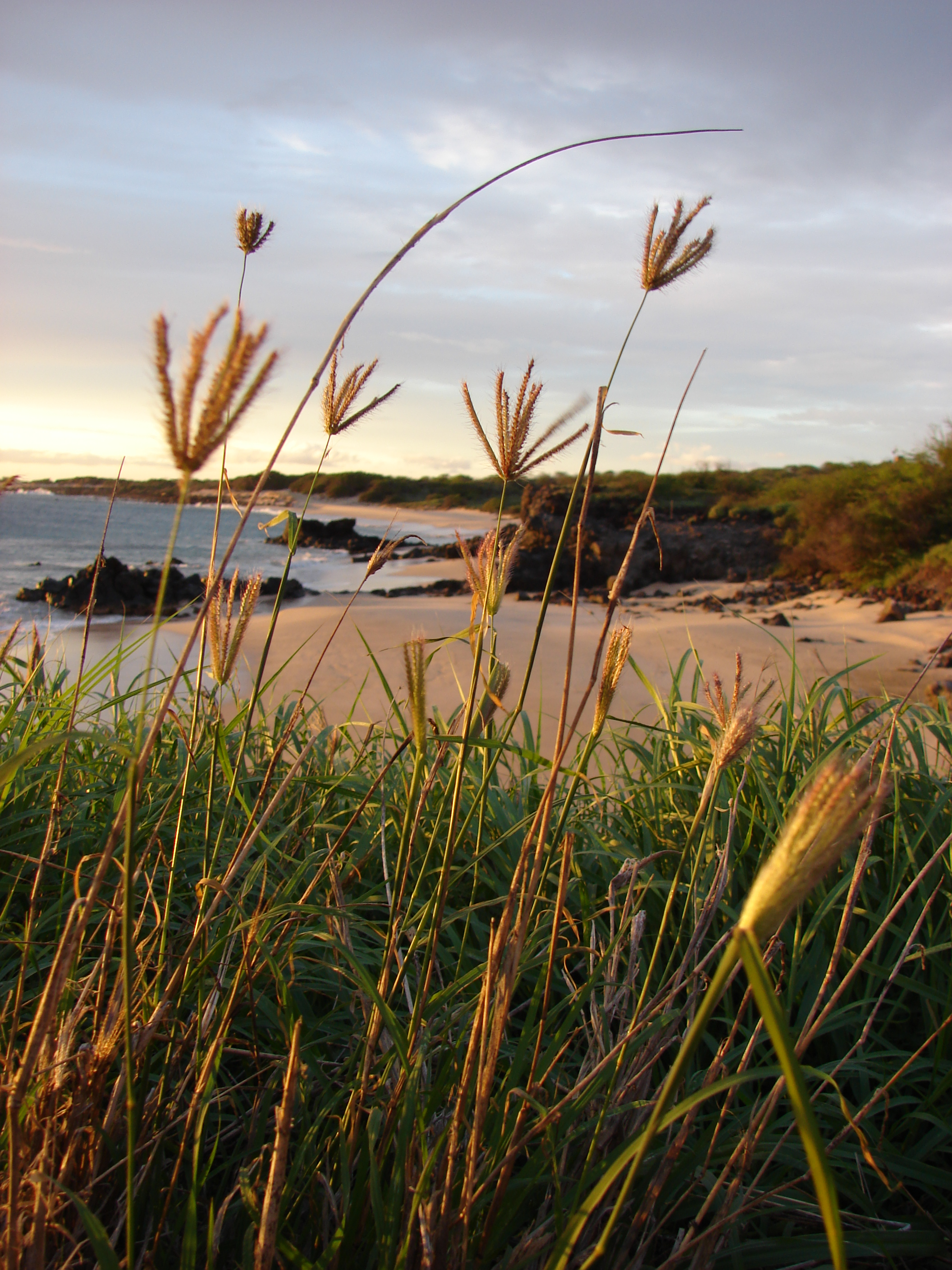 Chloris barbata (habit with beach at sunset). Location: Kahoolawe, Honokanaia